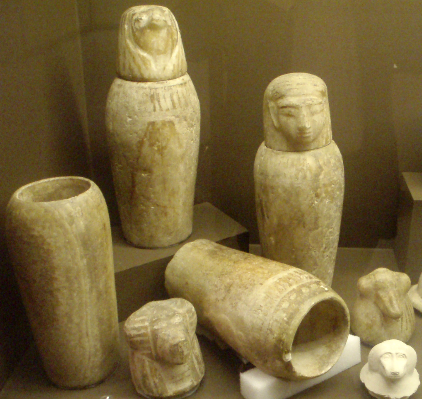 Collection of canopic jars and stoppers. Made of calcite, dating to the time of the New Kingdom. RC 1633, RC 1692.